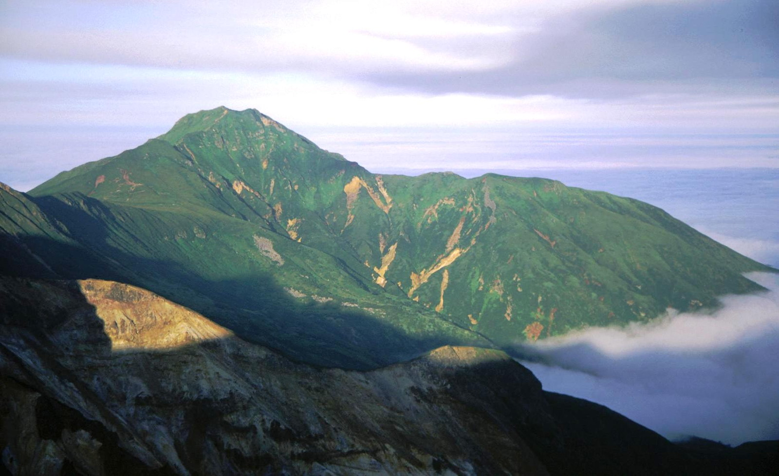 Mount Furano from Mount Tokachi